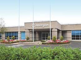 Alleran plc global legal headquarters in Ireland at Clonsaugh Business and Technology Park, Coolock, Dublin, Ireland